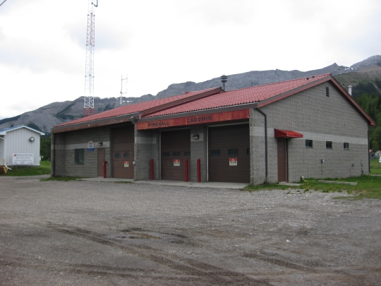 The Fire Dept of Cadomin. Many forest fires in the area are dispatched from this location and many of the Hamlet's residents have been volunteer firefighters. July 2011